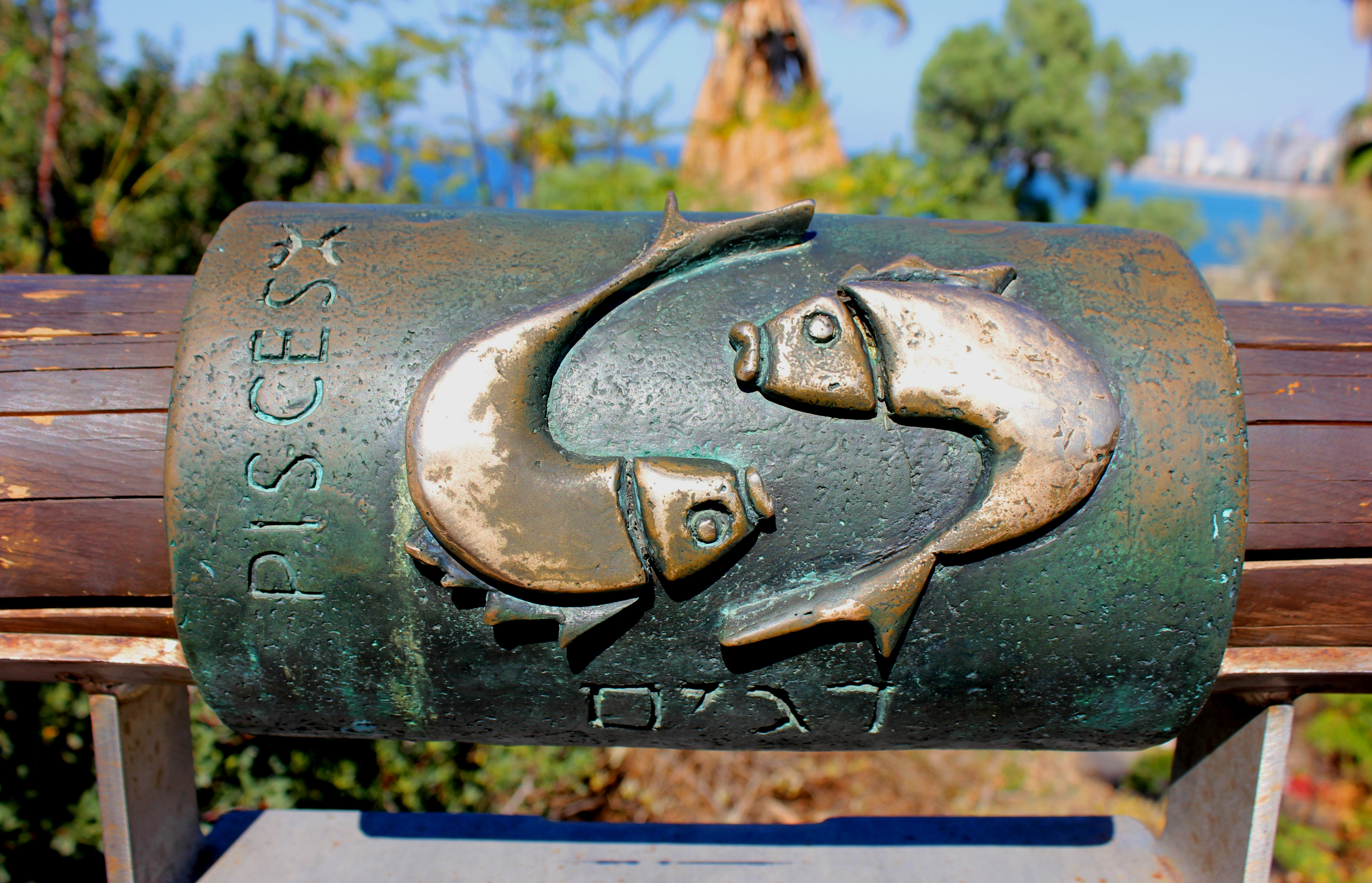 Pisces on Zodiac Bridge in Jaffa